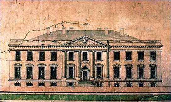 Design for the President's house, elevation. White House drawing competition, 1792.